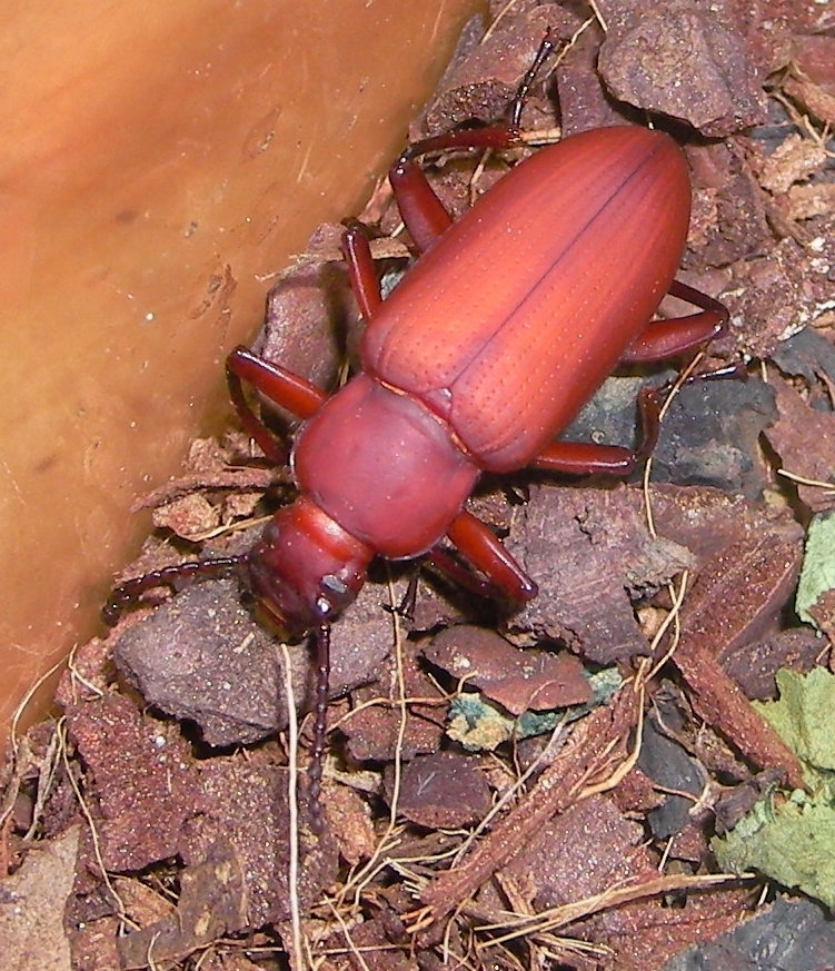 Young Zophobas morio